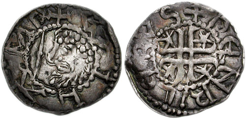 Scotland. William I of Scotland, the Lion. 1165-1214. AR Penny (19mm, 1.45 gm, 2h). Short cross and stars coinage Phase B, 1205-1230. Perth mint; Henry le Roux, mintmaster. +WILAM R', crowned head left, holding sceptre with pellet on shaft +hENRI LE RVS, voided short cross; stars in quarters. Burns I -; SCBI 35 (Ashmolean) -; SCBC 5031. Good VF, toned, remarkably complete strike. N.B.: The rarest of William's moneyers, with an unrecorded obverse legend.